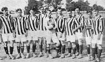 Football club Sparta Lwów in 1910 year.